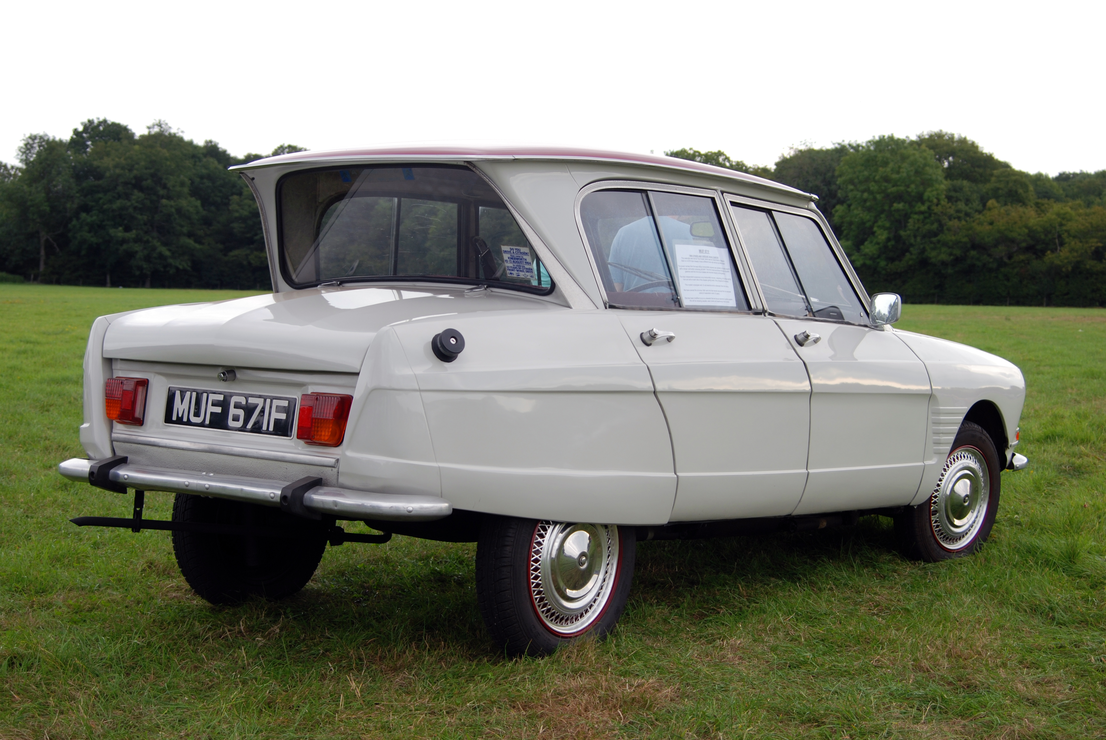 Cranleigh,Aug 2011